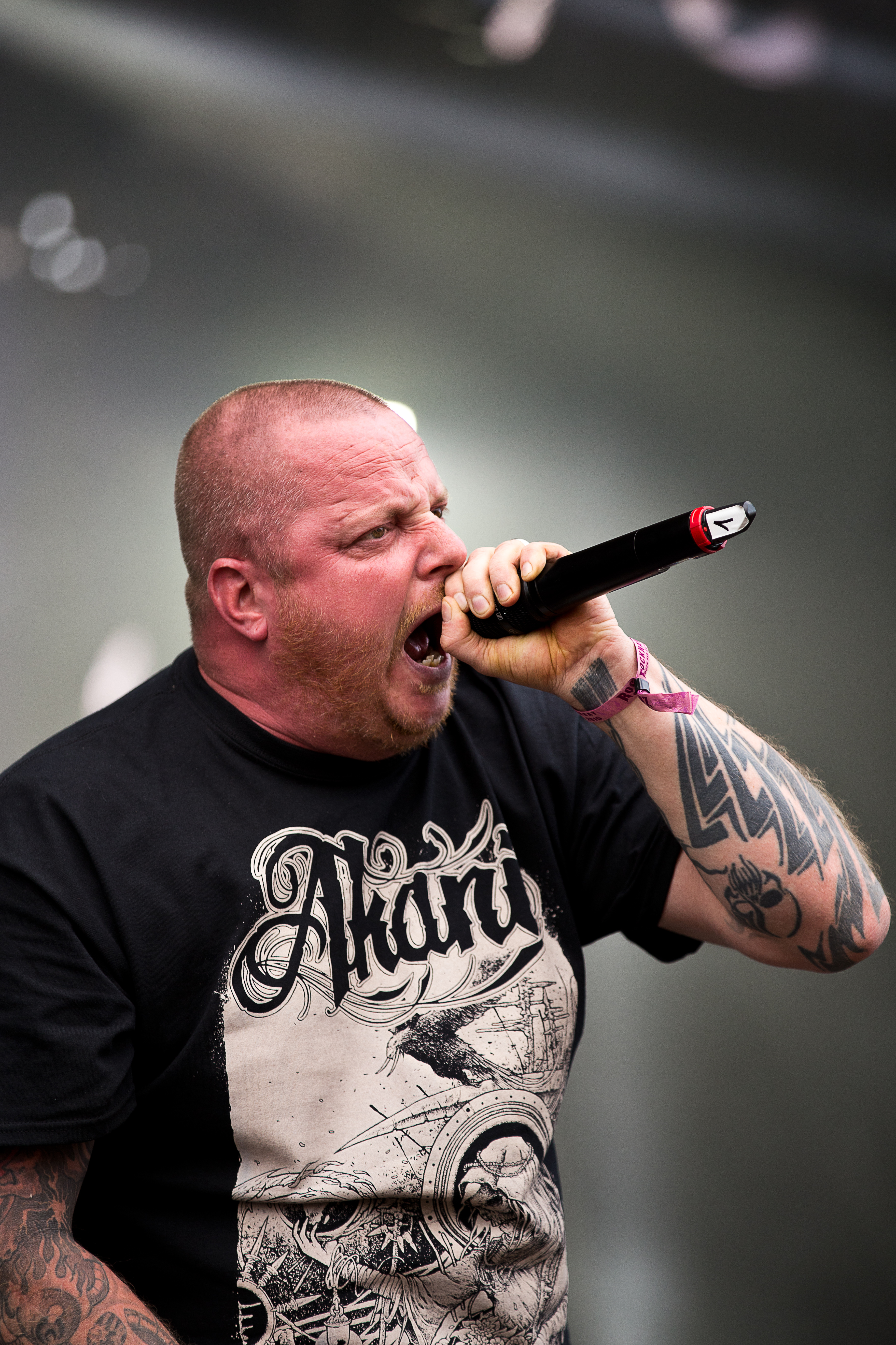 The Swedish thrash metal band The Haunted at the Rockharz Open Air 2015 in Ballenstedt/Germany.